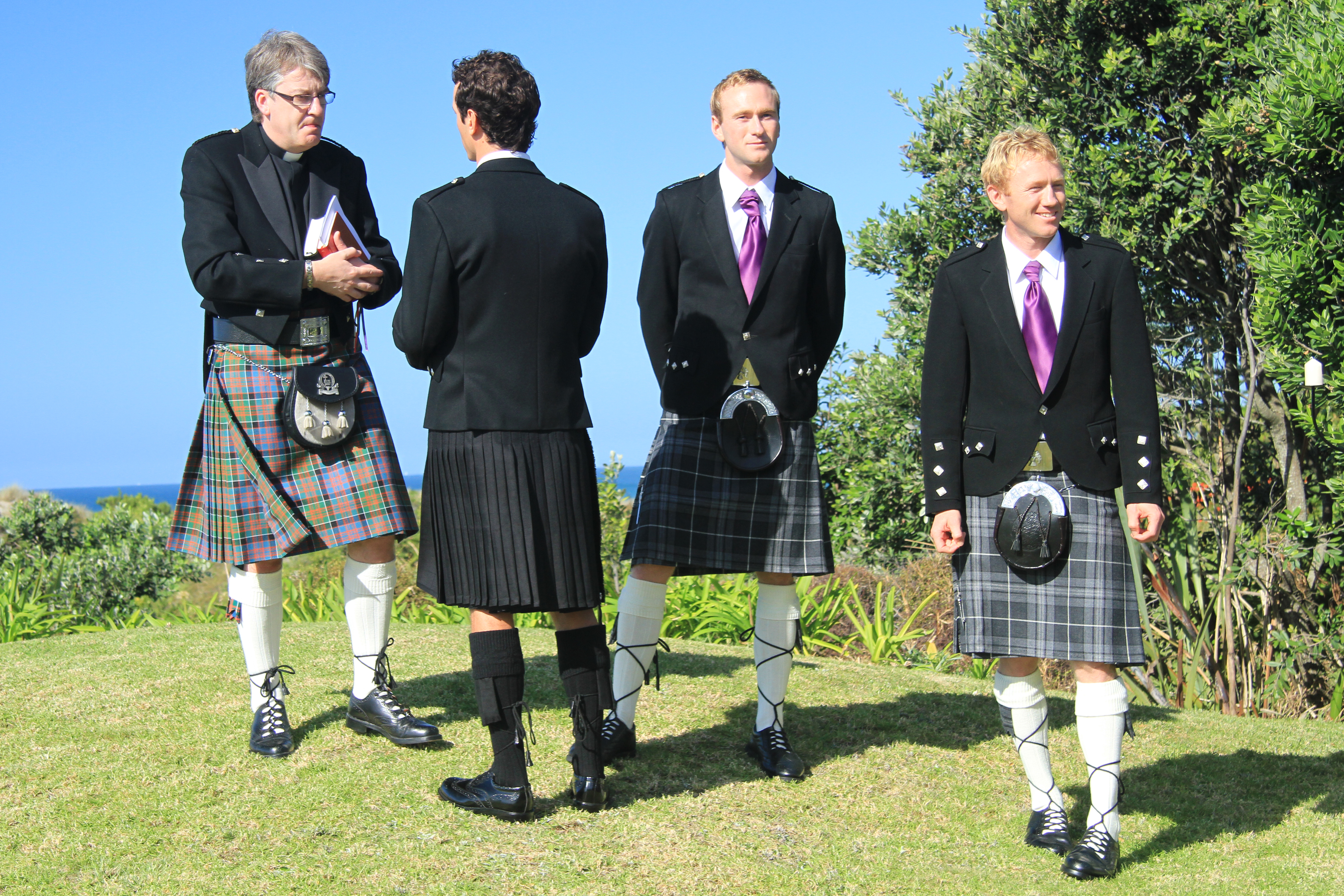 Stephen: "I'm sure Susan will turn up!"